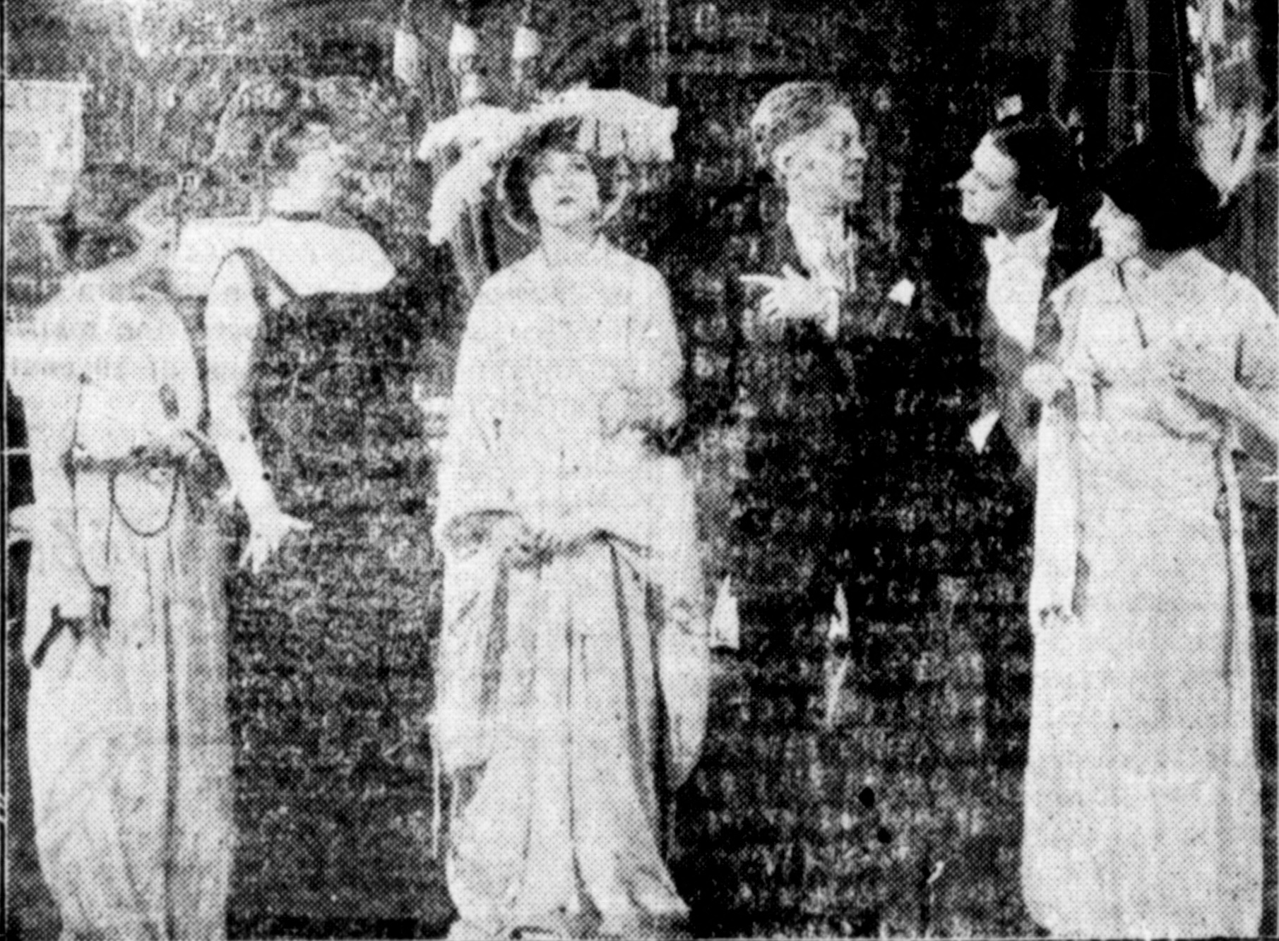 Niobe is a 1915 American comedy silent film directed by Hugh Ford and Edwin S. Porter and written by Edward A. Paulton and Harry Paulton. This is a scene from the film published in a 1916 newspaper.